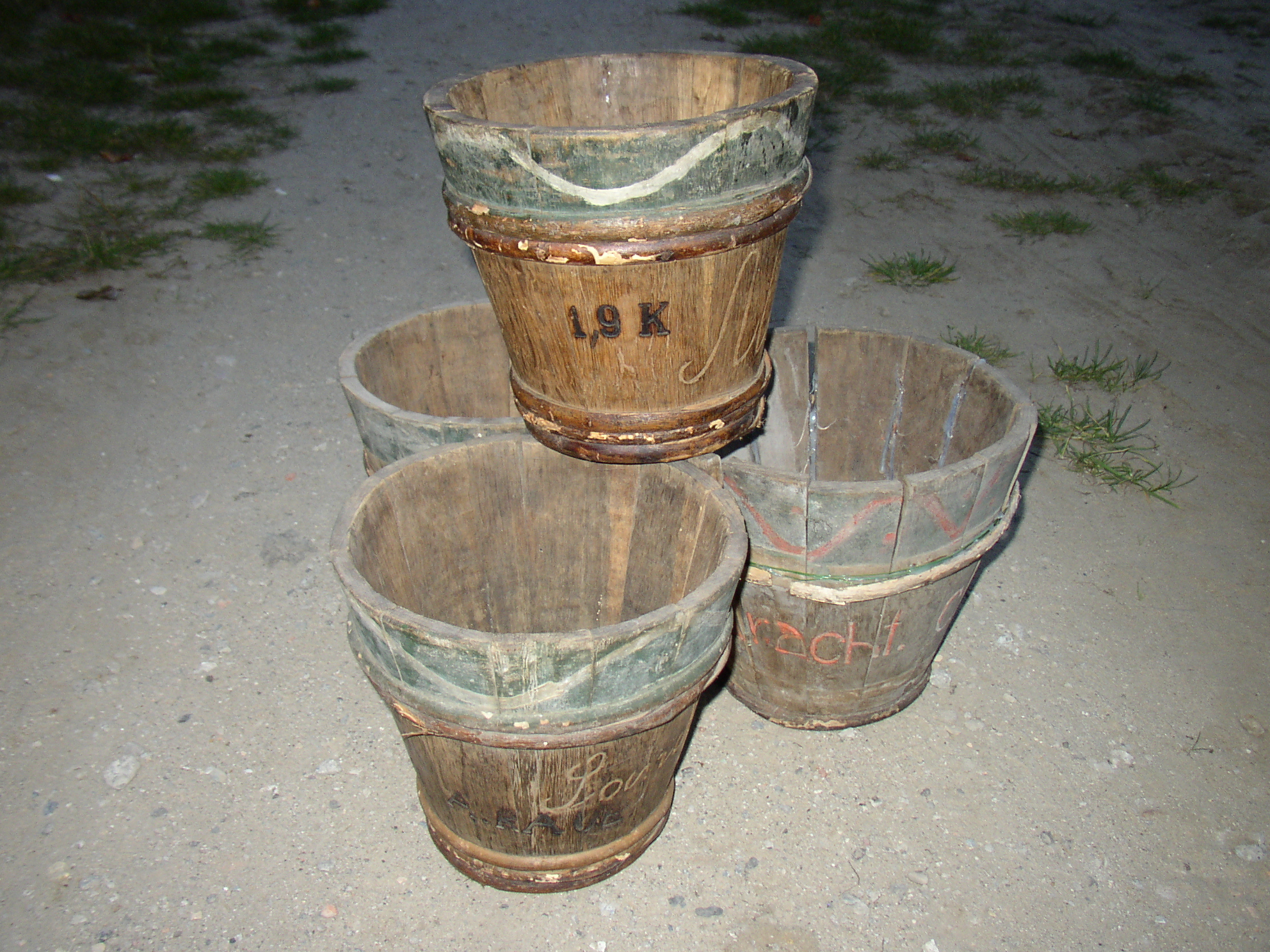 Traditionally used in the city of Werder, Germany, for transport of grapes and other fruits, to the markets in Berlin